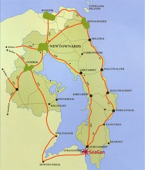 Map of Stranford Lough showing location of SeaGen tidal generator